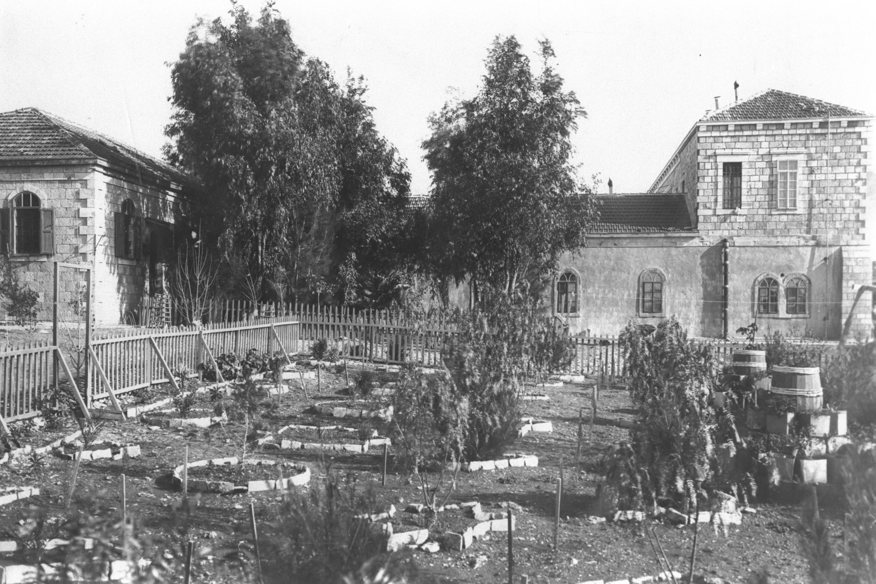 THE OLD AGE HOME ON JAFFA STREET IN JERUSALEM DURING THE OTTOMAN ERA IN THE LAND OF ISRAEL. צילום בתי מושב זקנים וזקנות ברחוב יפו בירושלים, בתקופה העותומנית בארץ ישראל.